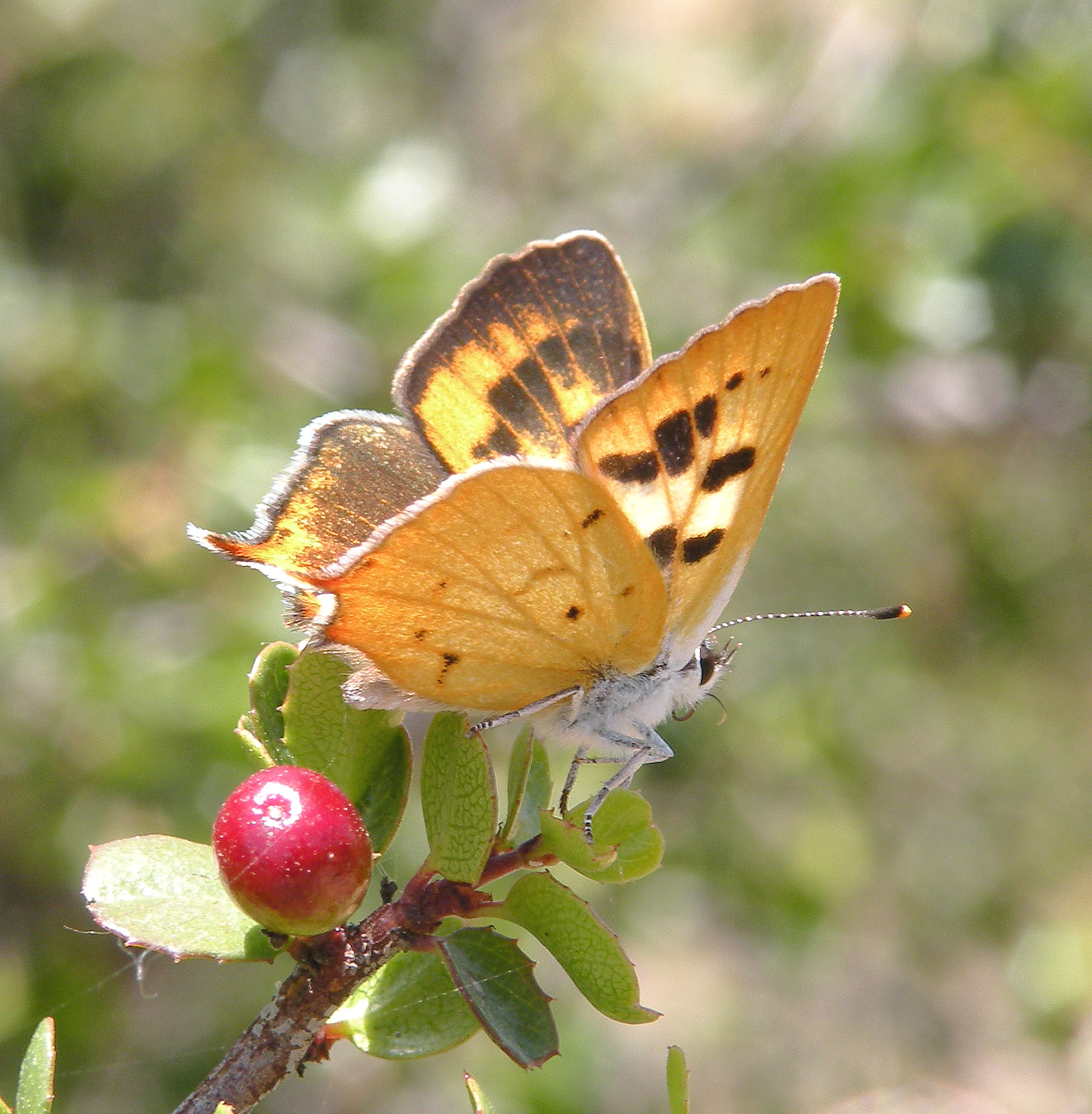 Hermes copper butterfly is found primarily in San Diego County, California, with a few records of the species documented in Baja California, Mexico. It inhabits coastal sage scrub and southern mixed chaparral and lays its eggs on its larval host plant, spiny redberry. Photo courtesy of Michael W. Klein Sr.